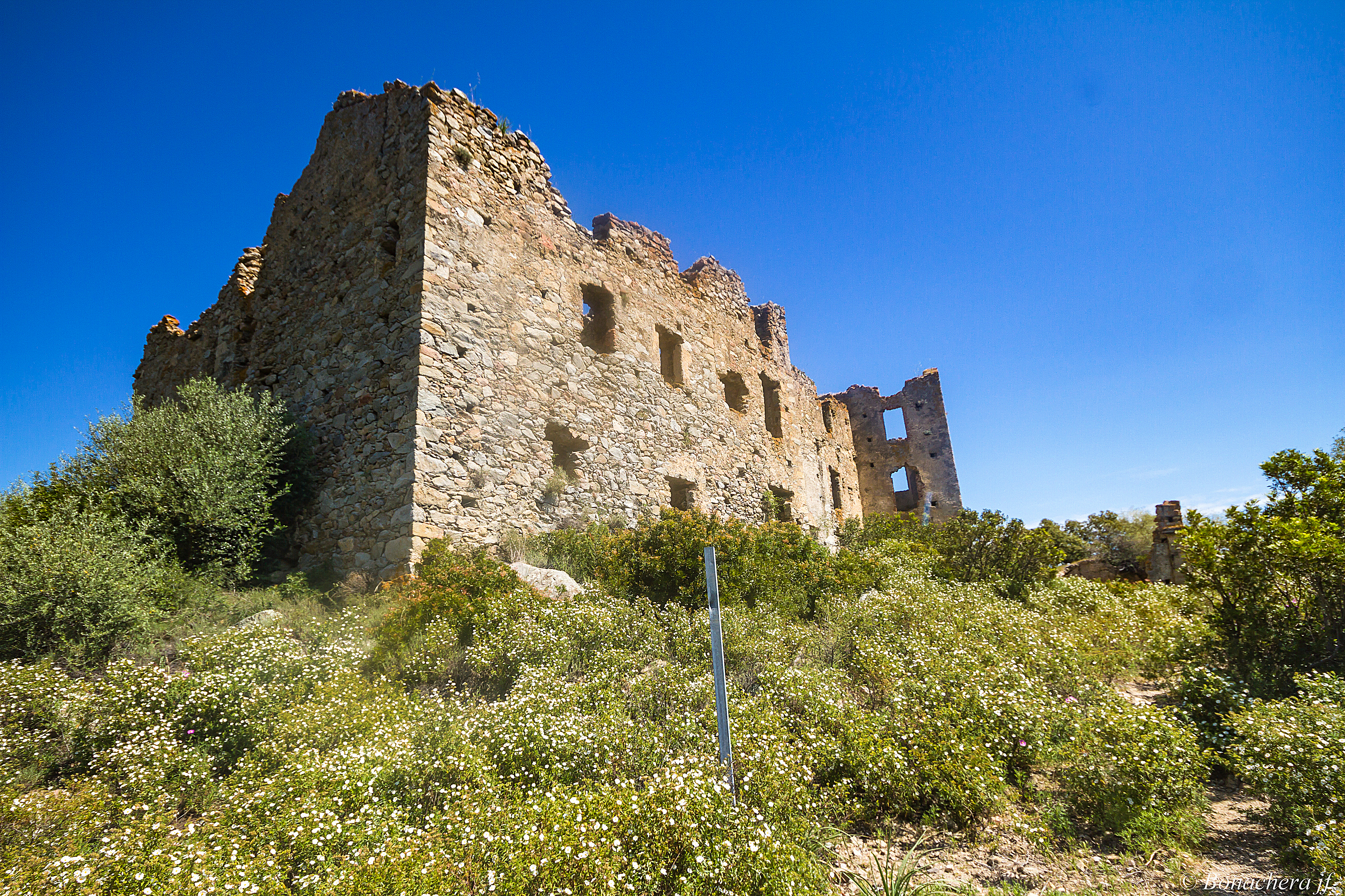 Vue des faces Sud et Ouest